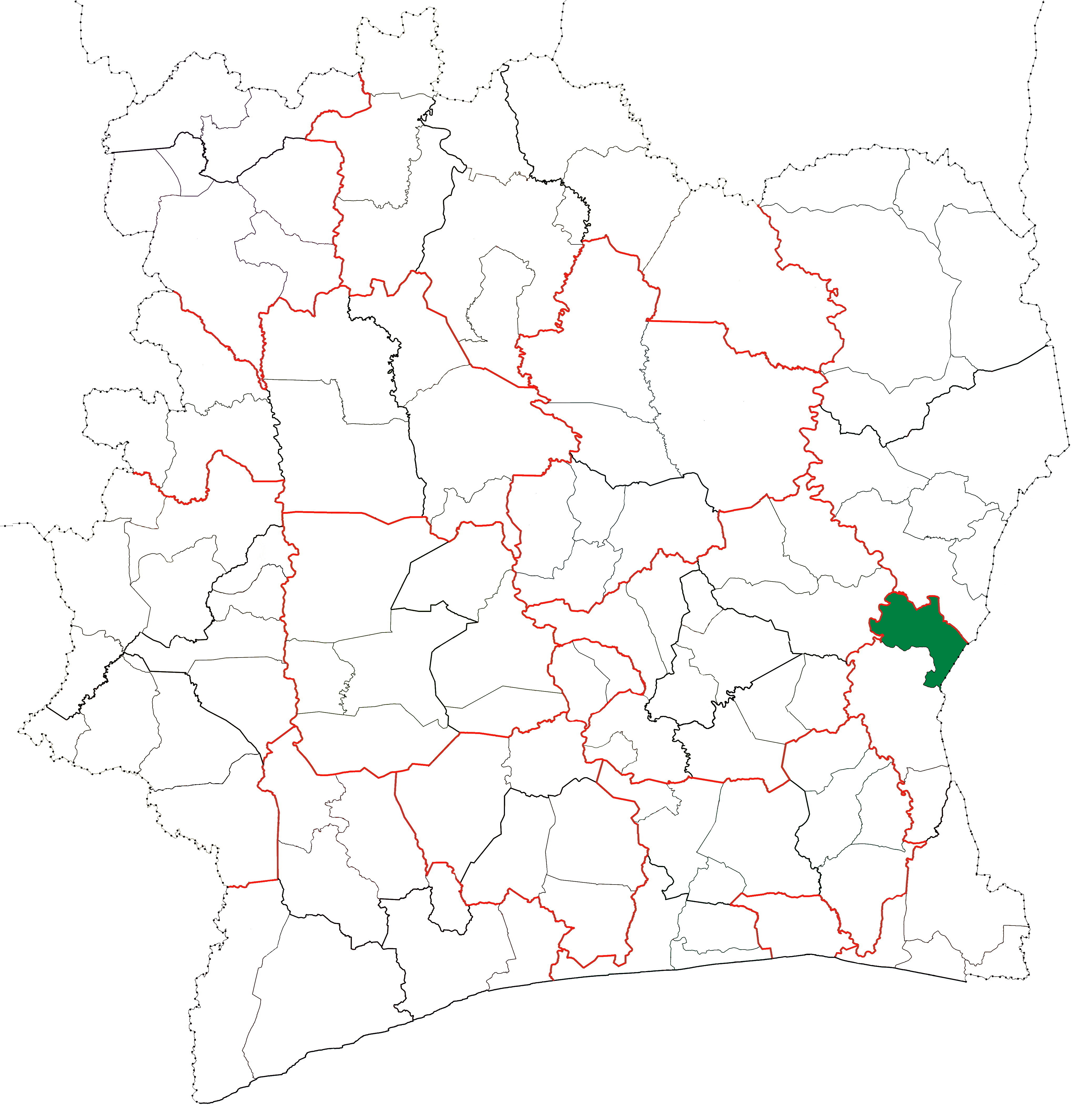 Locator map for Agnibilékrou Department in Côte d'Ivoire.